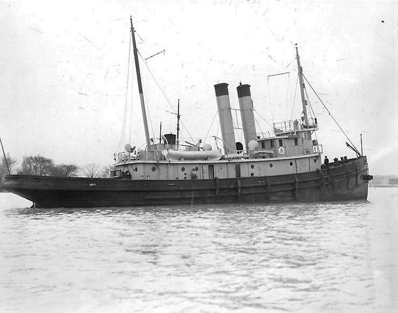 Photo #: NH 85991 USS Muscotah (YT-33) Off the Washington Navy Yard, D.C., circa 1932-1934. U.S. Naval Historical Center Photograph.